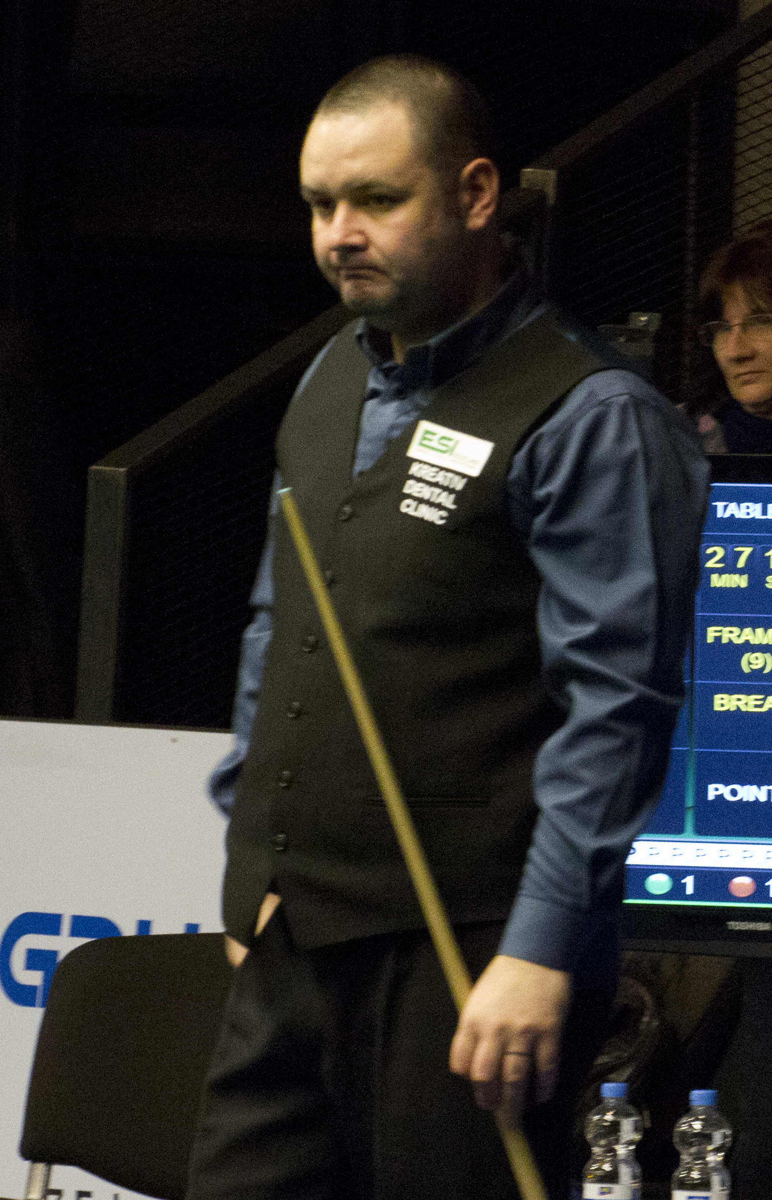 Round of last 16 Neil Robertson vs. Xiao Guodong (TV-Table) Peter Ebdon vs. Mark Selby Judd Trump vs. Martin Gould Stephen Maguire vs. Mark King